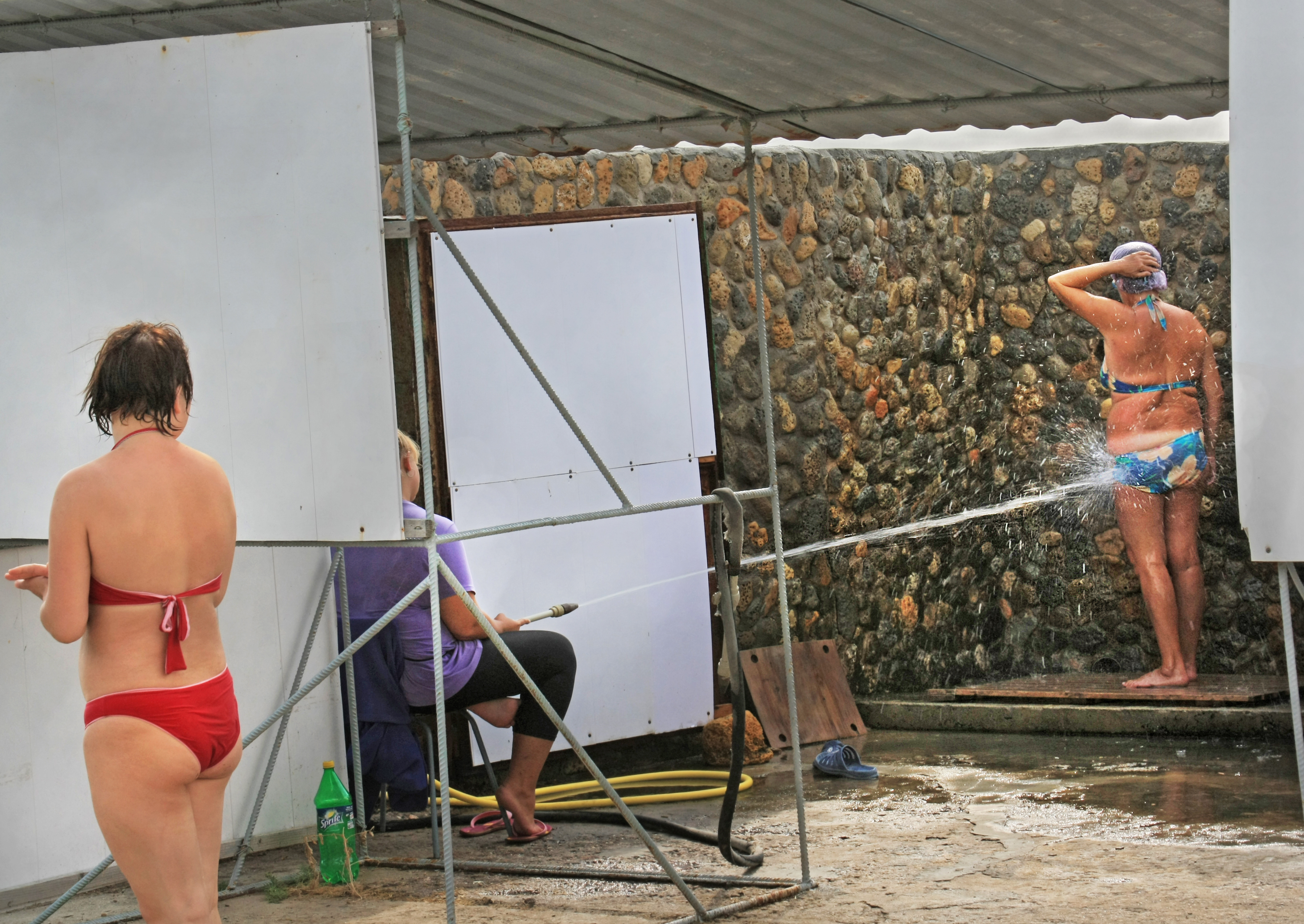 Hydromassage on shore of Lake Moynaki with extra-salty water. Yevpatoria, Crimea